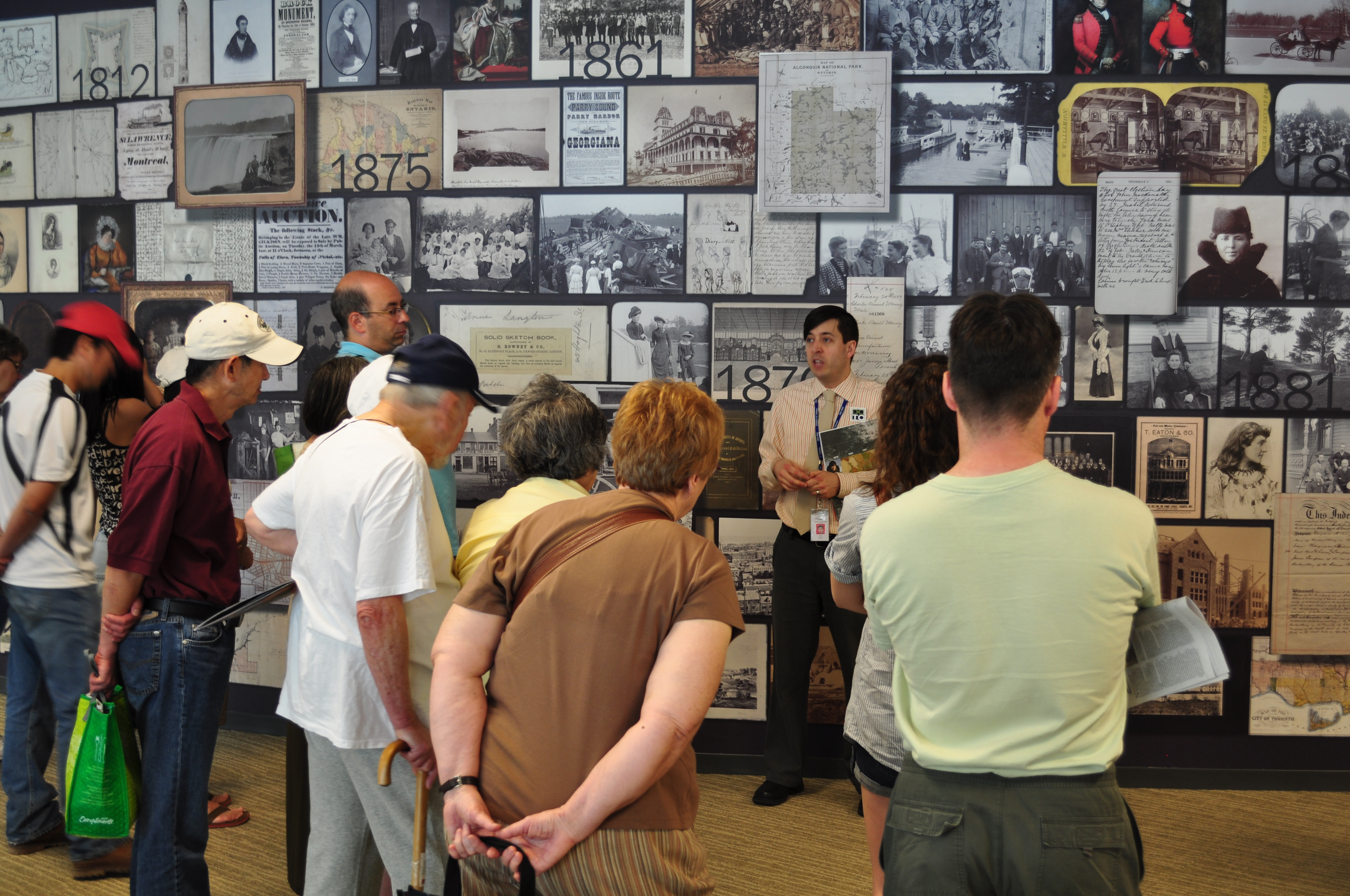 Archives of Ontario during the Toronto Doors Open event in 2010.